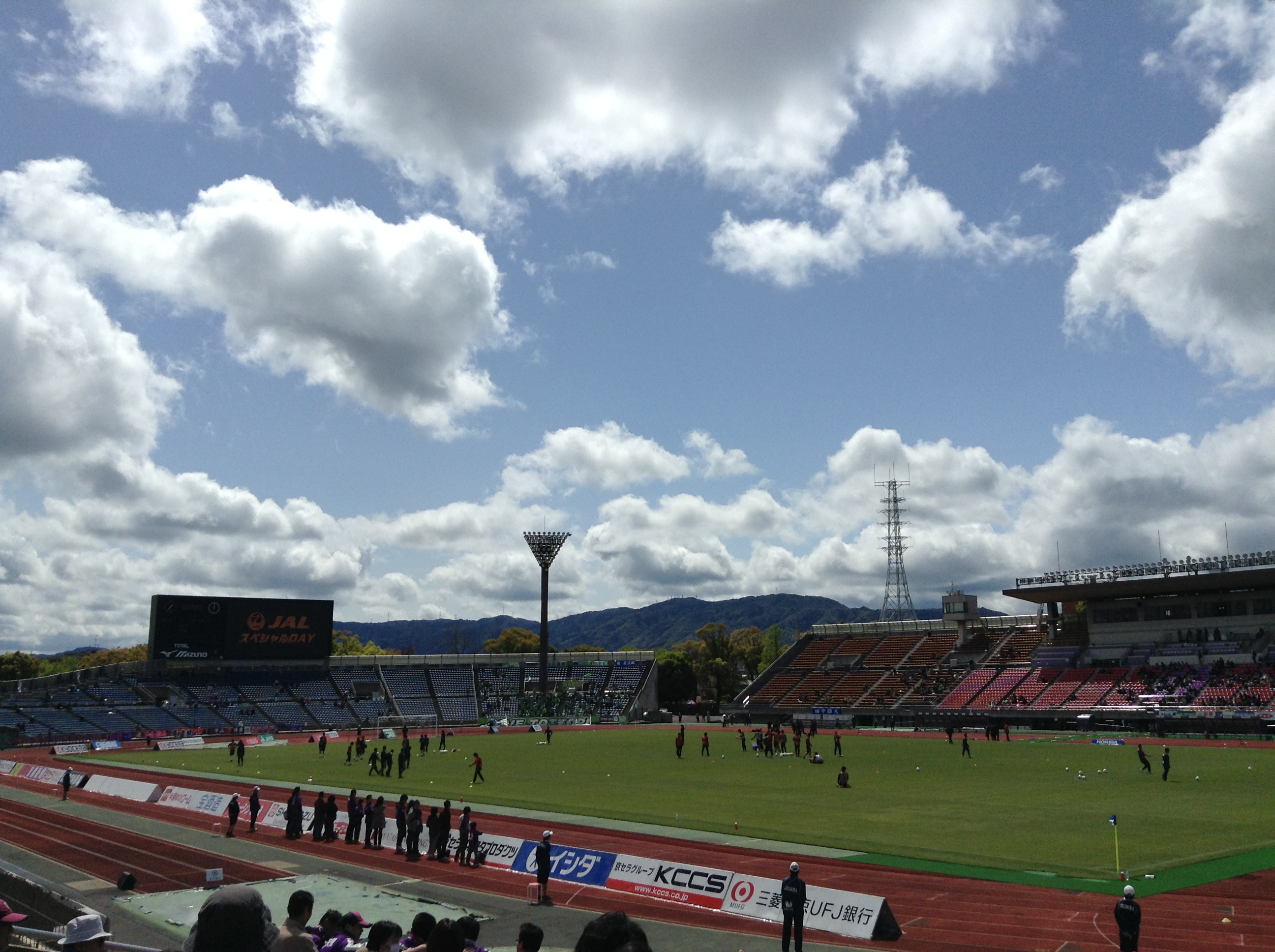 J. League Division 2 , Kyoto Sanga F.C. vs Gainare Tottori , April 21, 2013.